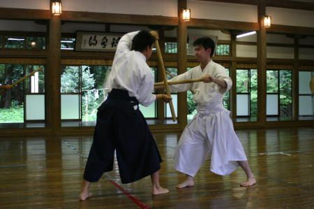 Performance of Houjou Kata, Spring Season.